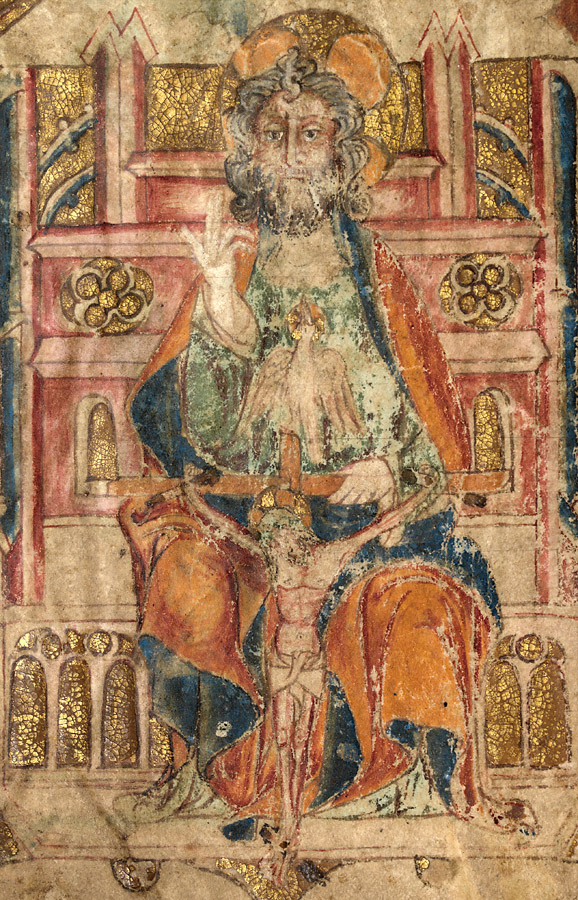 Llanbeblig Hours (f. 4v.) God, The Holy Spirit, and Christ Crucified